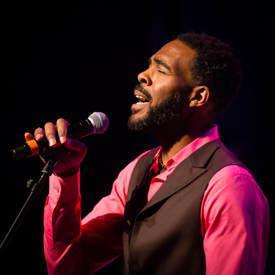 Jay Nemor performs at Cosmopolite in Oslo. Band: Kenya Emil (Kenya Emilíudóttir) (vocal), David Goncalves (drums), Dag Arne Abrahamsen (guitar), Attila Publik (keyboards), Christopher Sobolewski (bass)